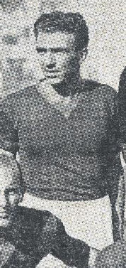 Otello Subinaghi, AS Roma football player. Photo taken on 29 september 1935 (GENOVA 1893 - ROMA 2-1)